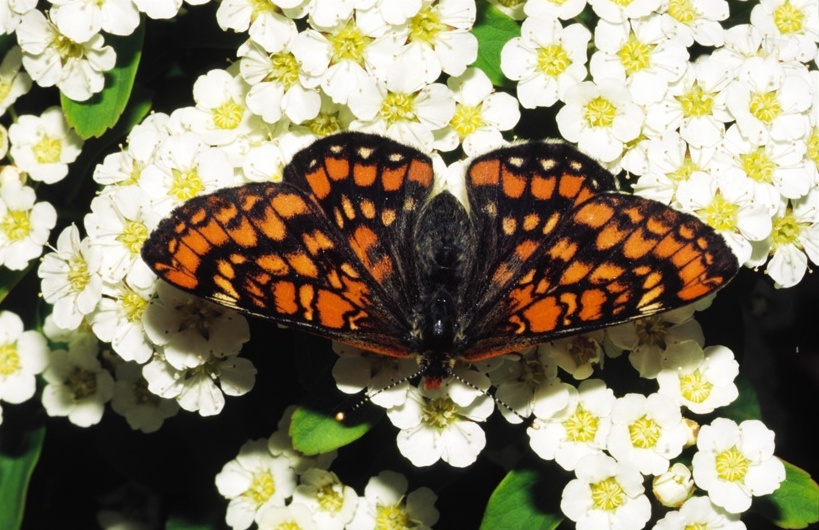 Euphydryas maturna